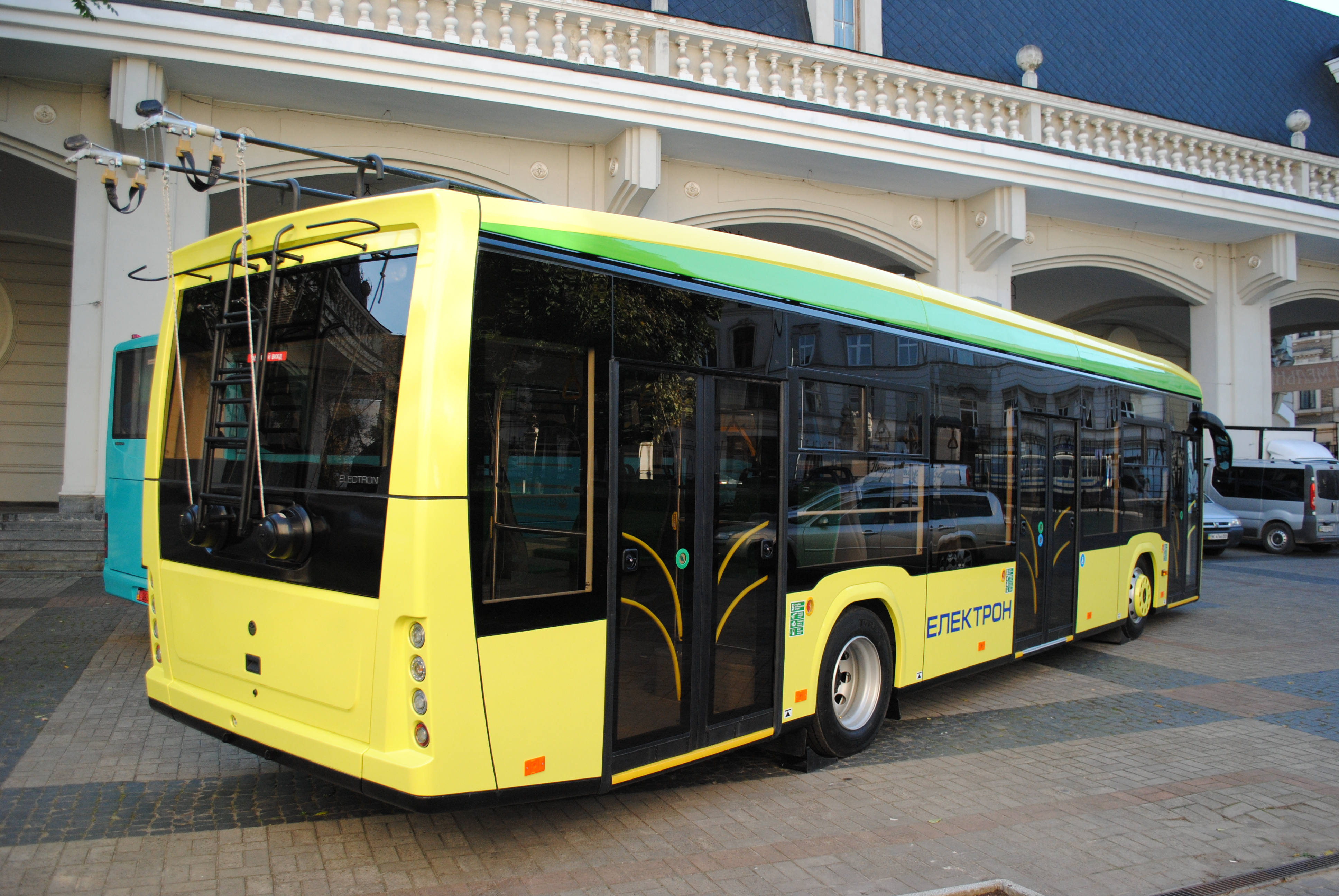 Electron T19101 trolleybus on Lvivsky Tovarovyrobnyk Expo.